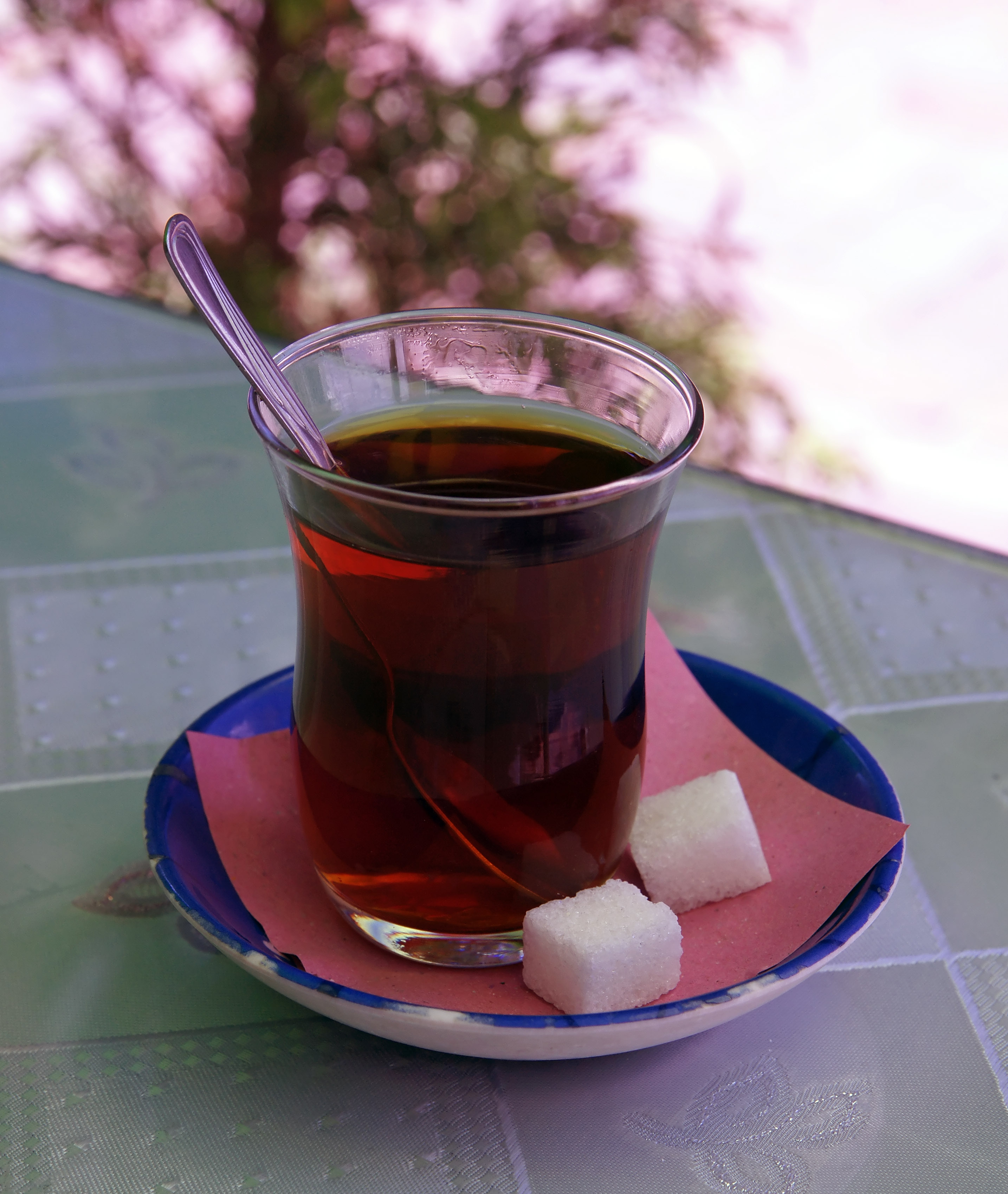 A glass of Turkish tea with two small lumps of sugars and a spoon.